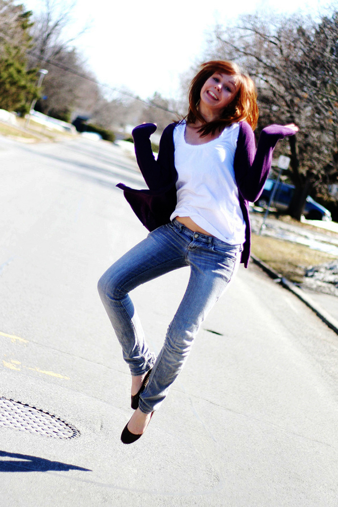 Slim-fit pants, skinny jeans, pegs, drainpipes, stovepipes, cigarette pants, pencil pants, skinny pants or skinnies.